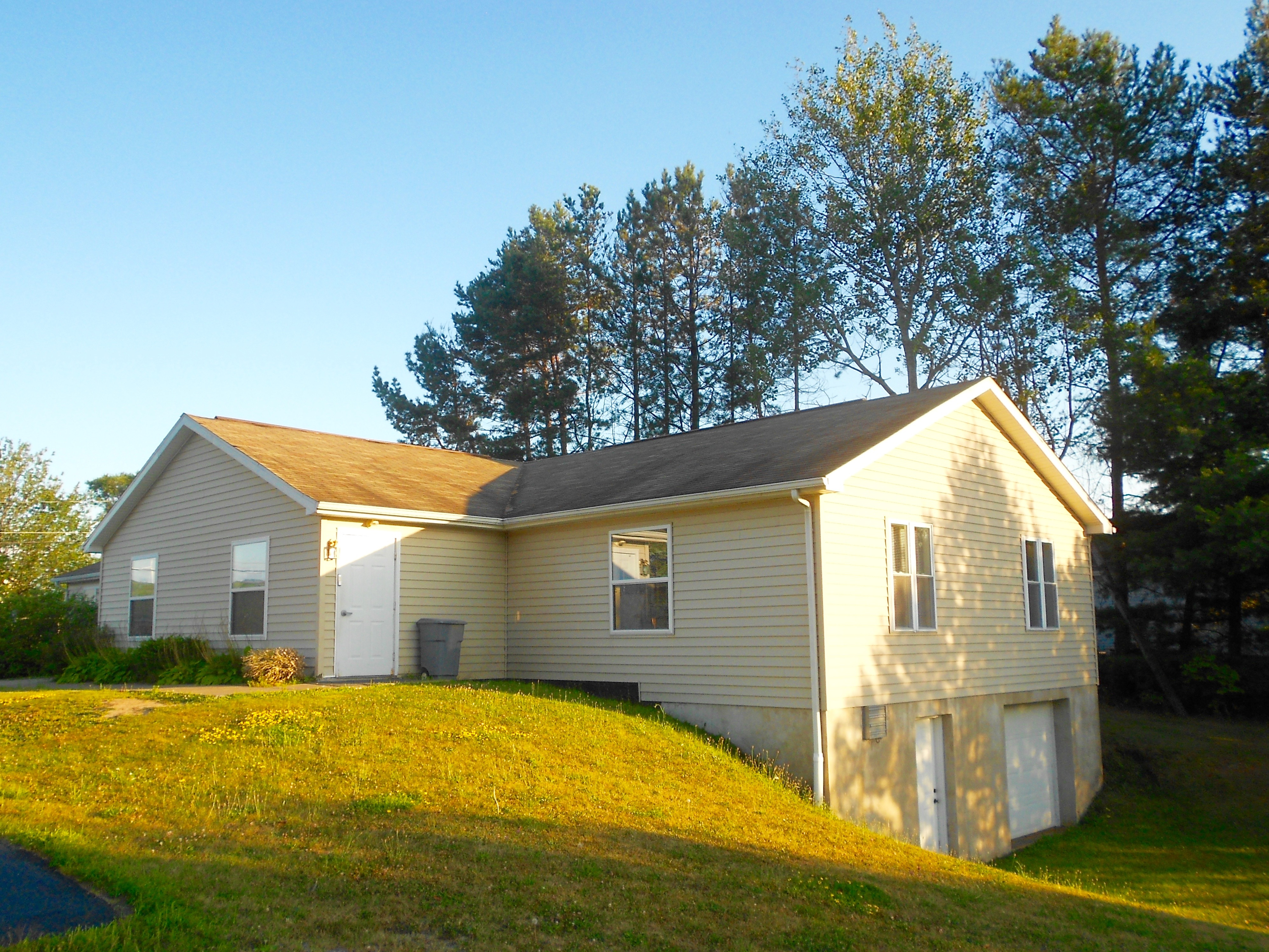 "Municipal Complex" (according to the sign on the other side of the building) of Vandling, Lackawanna County, Pennsylvania